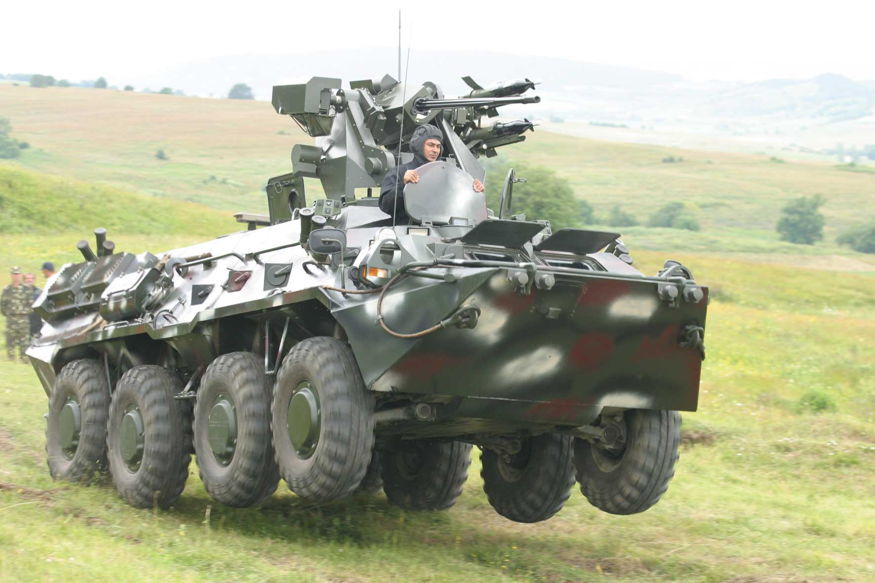 Zimbru 2000 in field trials.